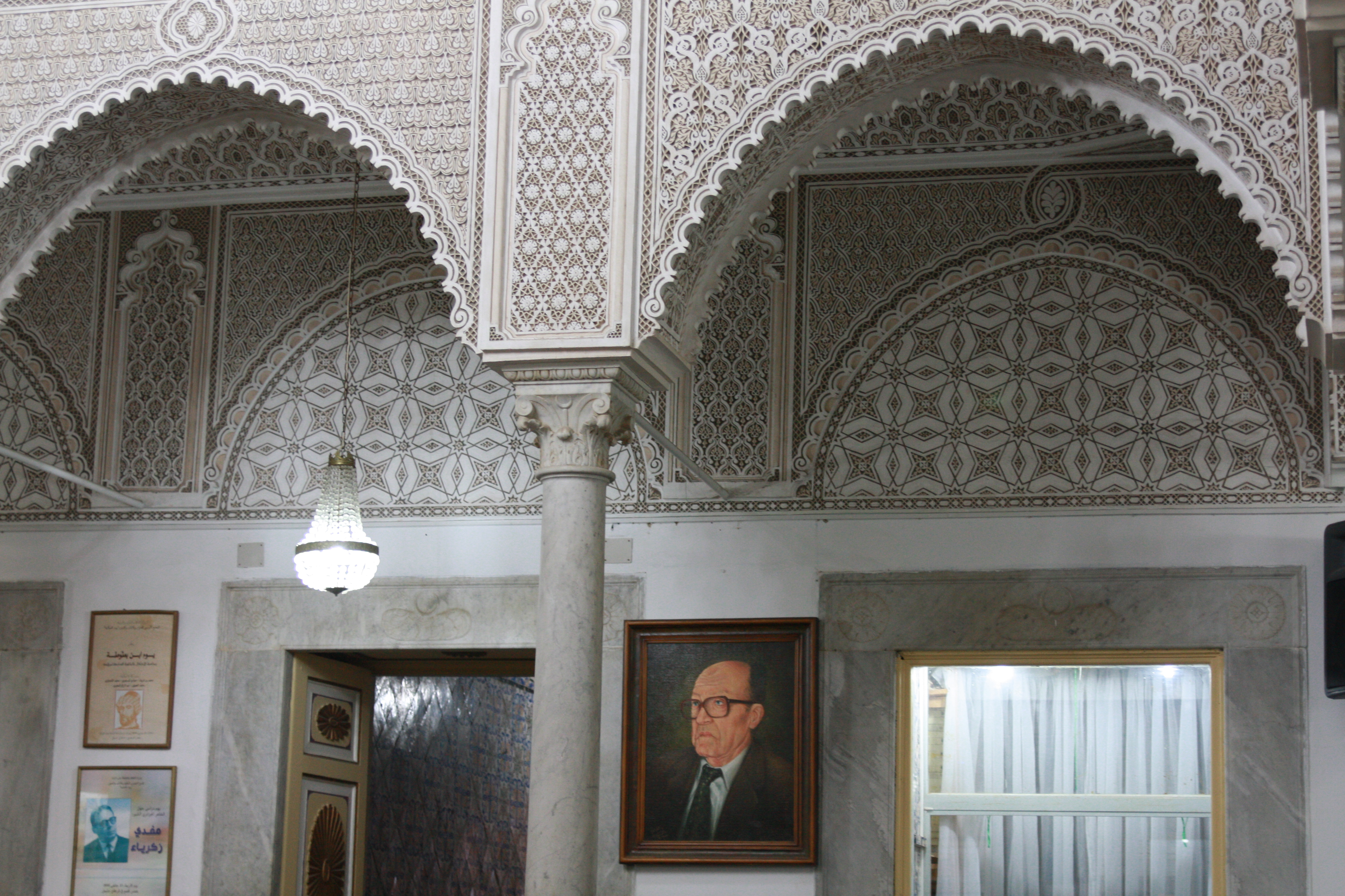 Interior of Beït El Hikma